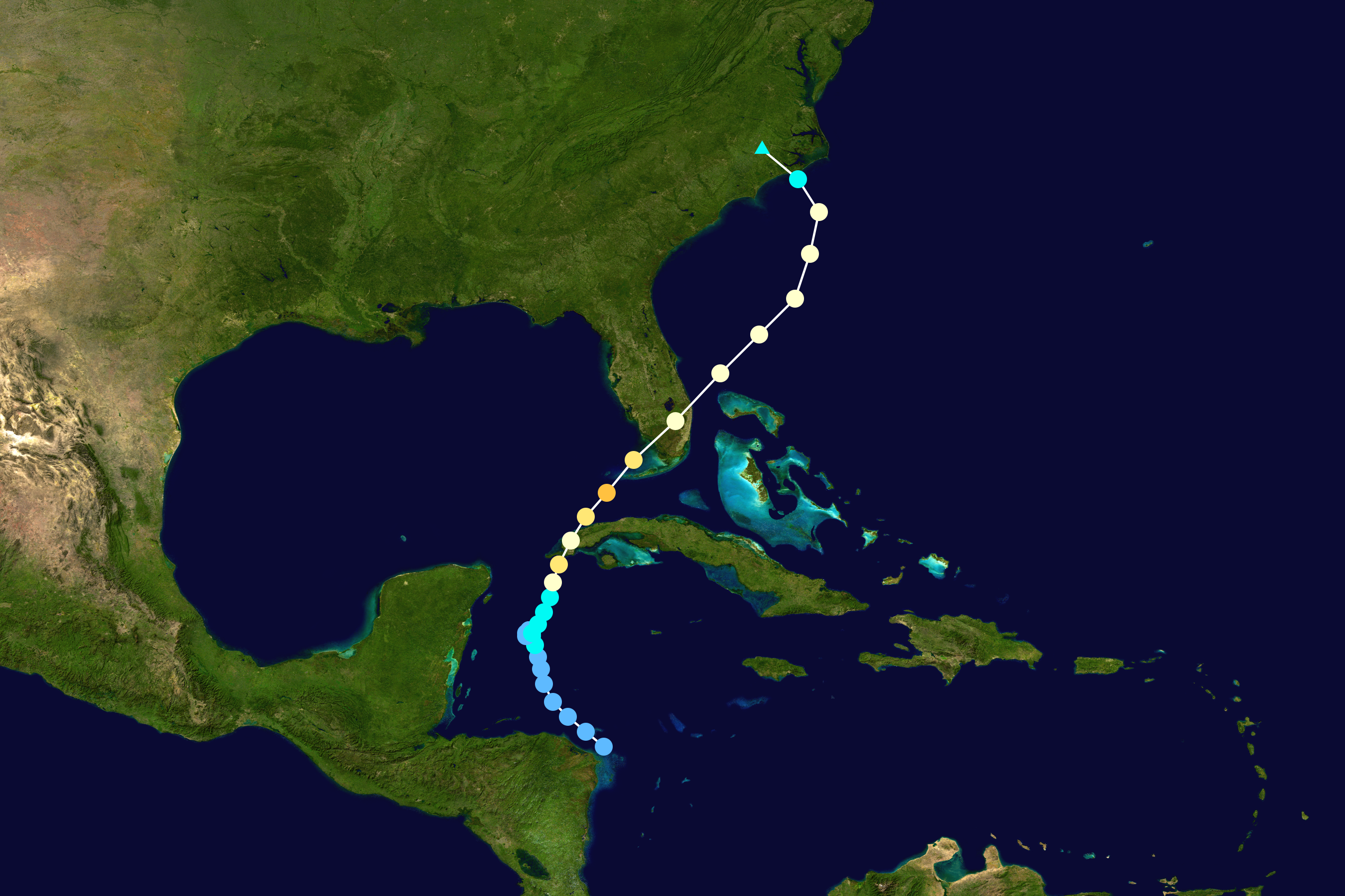 Track map of Hurricane Isbell of the 1964 Atlantic hurricane season. The points show the location of the storm at 6-hour intervals. The colour represents the storm's maximum sustained wind speeds as classified in the Saffir–Simpson scale (see below), and the shape of the data points represent the nature of the storm, according to the legend below. Saffir–Simpson scale Tropical depression≤38 mph≤62 km/h Category 3111–129 mph178–208 km/h Tropical storm39–73 mph63–118 km/h Category 4130–156 mph209–251 km/h Category 174–95 mph119–153 km/h Category 5≥157 mph≥252 km/h Category 296–110 mph154–177 km/h Unknown Storm type Tropical cyclone Subtropical cyclone Extratropical cyclone / Remnant low / Tropical disturbance / Monsoon depression